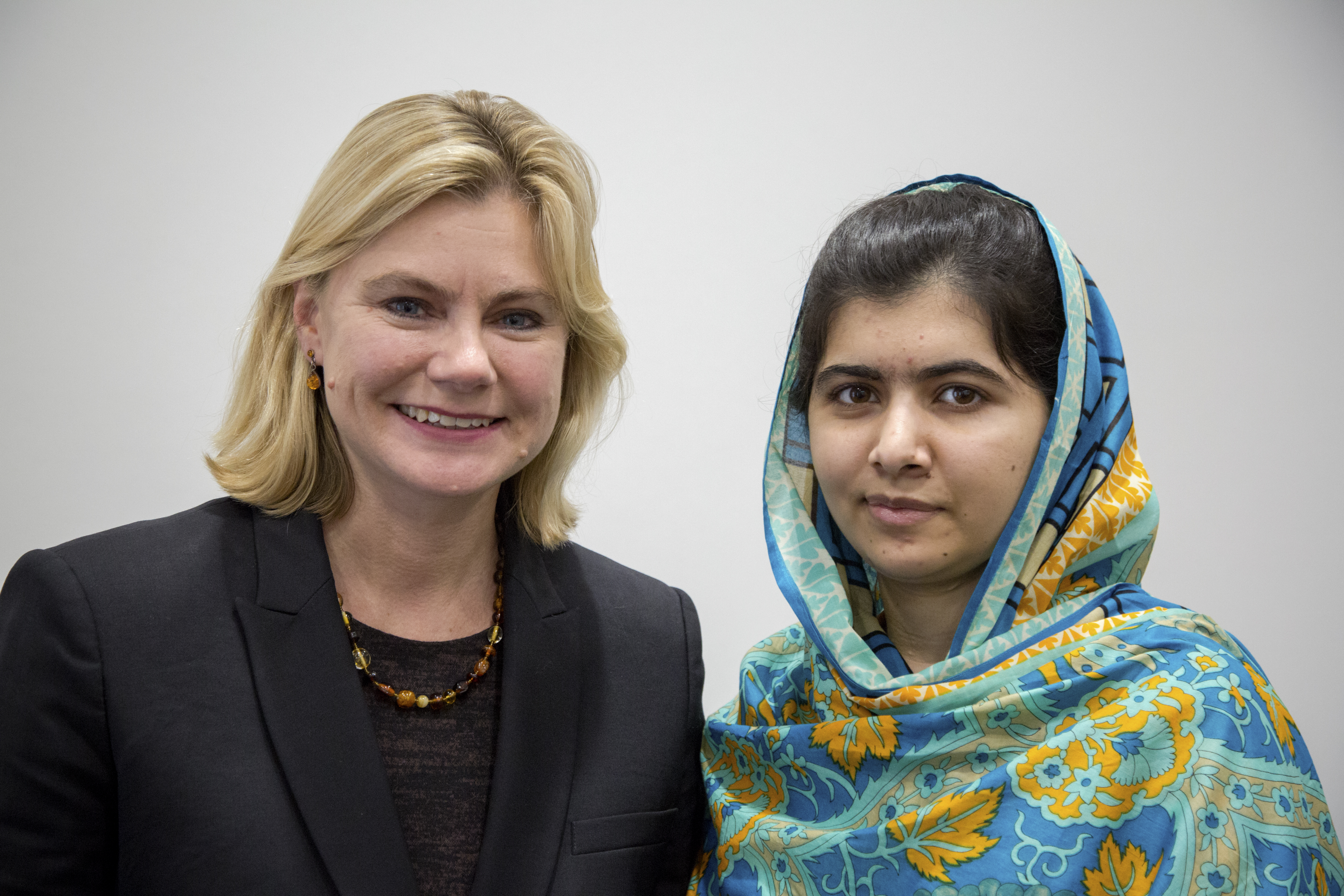 Education campaigner Malala Yousafzai joined International Development Secretary Justine Greening in London to discuss the importance of getting girls through school around the world. Over 60 million girls in the world are out of school. Malala - a Nobel Peace Prize winner - is leading a drive to ensure all girls get access to 12 years of free, safe, quality primary and secondary education. Joining Malala at the recent Global Goals festival in New York, Justine Greening said: "I don’t believe that any country can develop if half its population is left behind. "It’s about voice, choice and control for girls and women. That starts with education. "I’m committing that the UK will help 6.5 million more girls to go to school over the next 5 years". Read more about the UK’s support for girls in school at: Find out more about Malala’s campaign to get all girls an education at: Picture: Simon Davis/DFID Free-to-use photo This image is posted under a Creative Commons - Attribution Licence, in accordance with the Open Government Licence. You are free to embed, download or otherwise re-use it, as long as you credit the source as 'Simon Davis/DFID'.